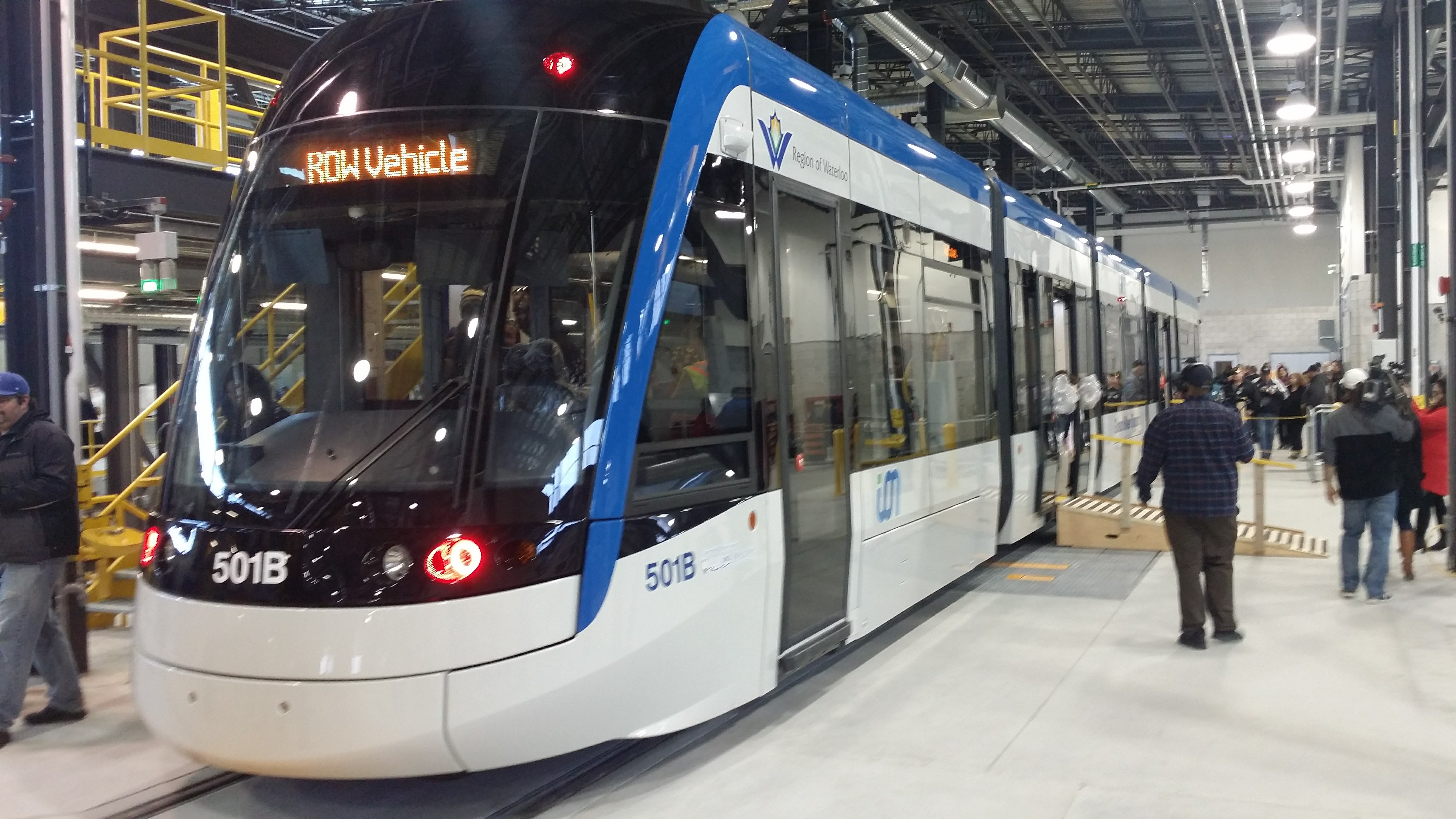 Bombardier Flexity Freedom, Ion unit 501. Photographed at Ion OMSF during public tour event.